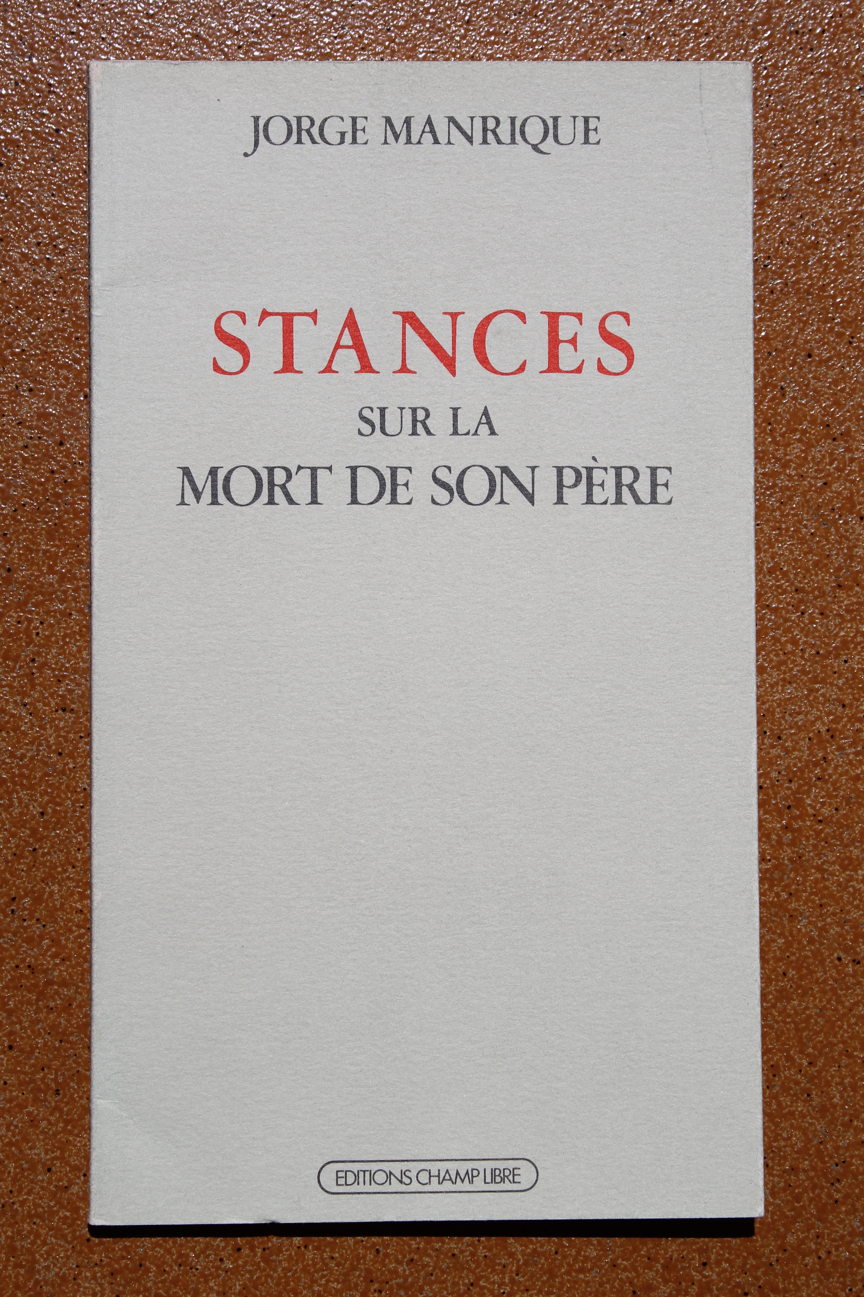 Stances sur la mort de son père cover